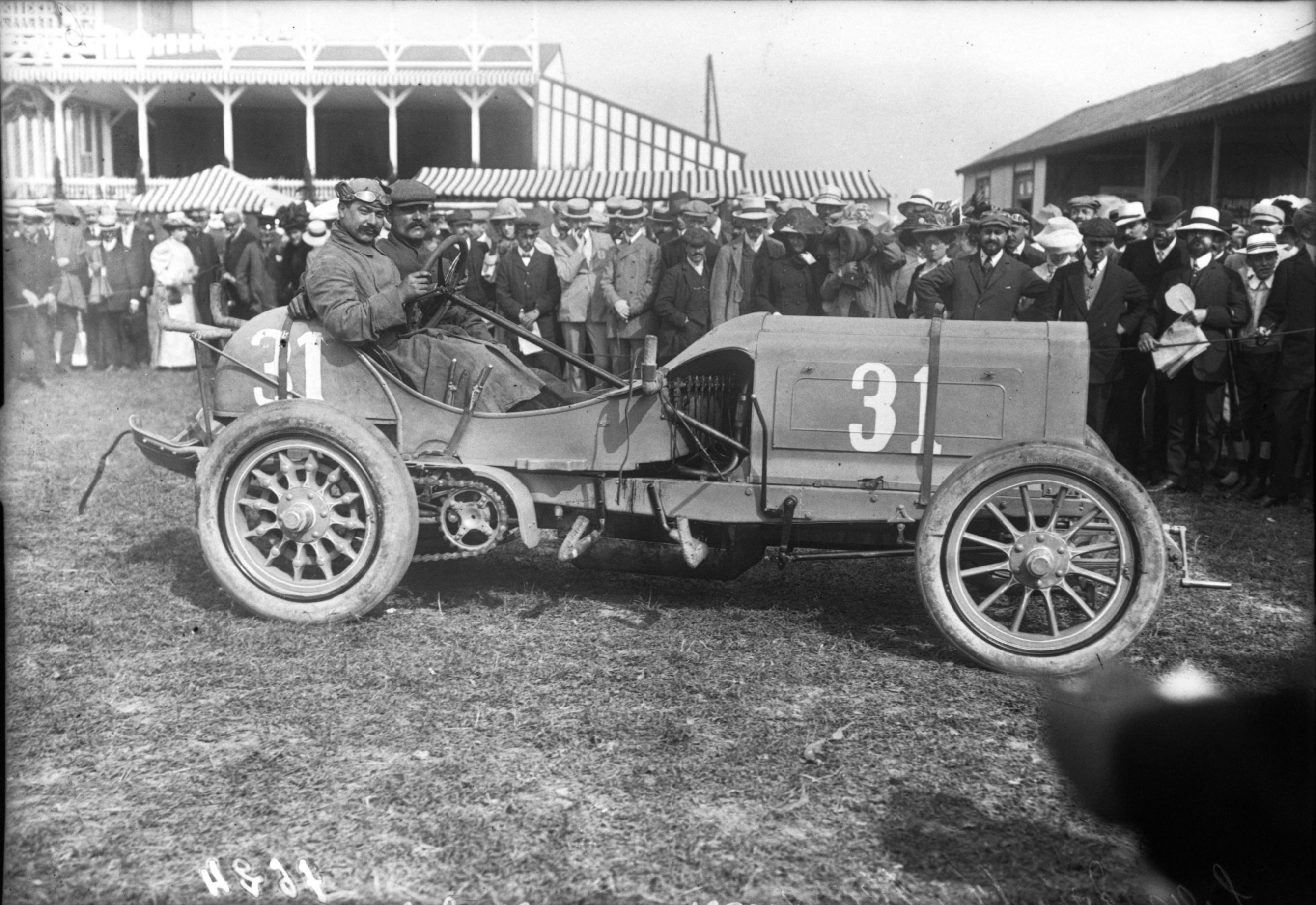 Landon in his Mors at the 1908 French Grand Prix at Dieppe.